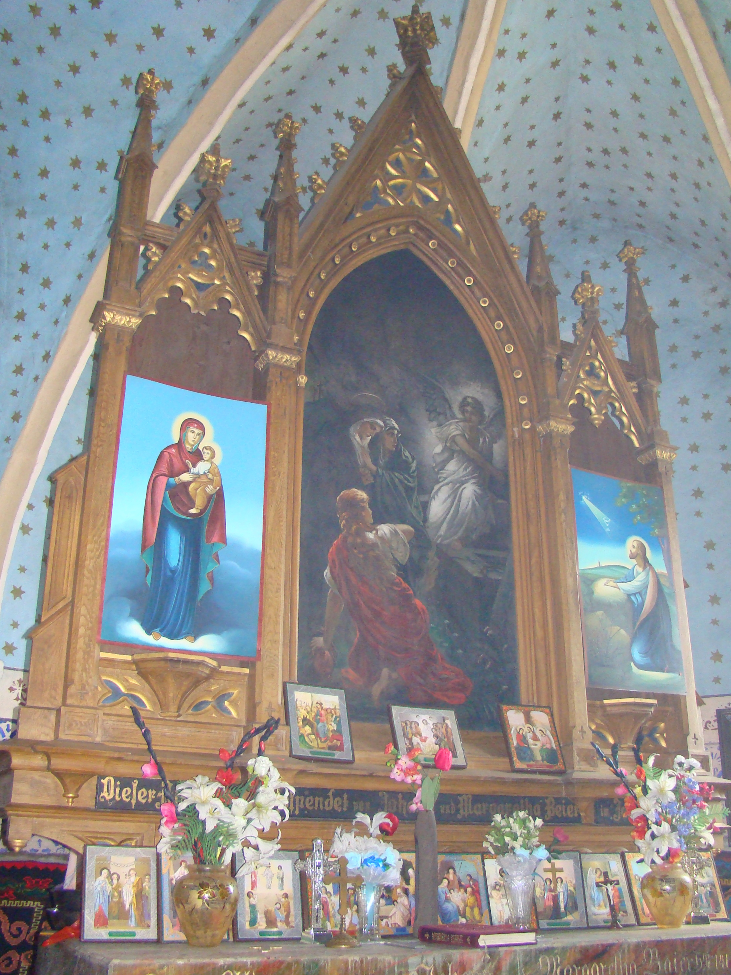 Lutheran church in Slătinița, Bistrița-Năsăud County, Romania